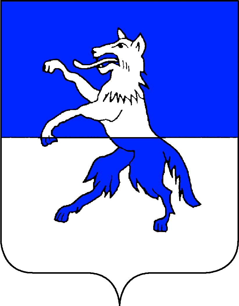 Zane Family coat of arms